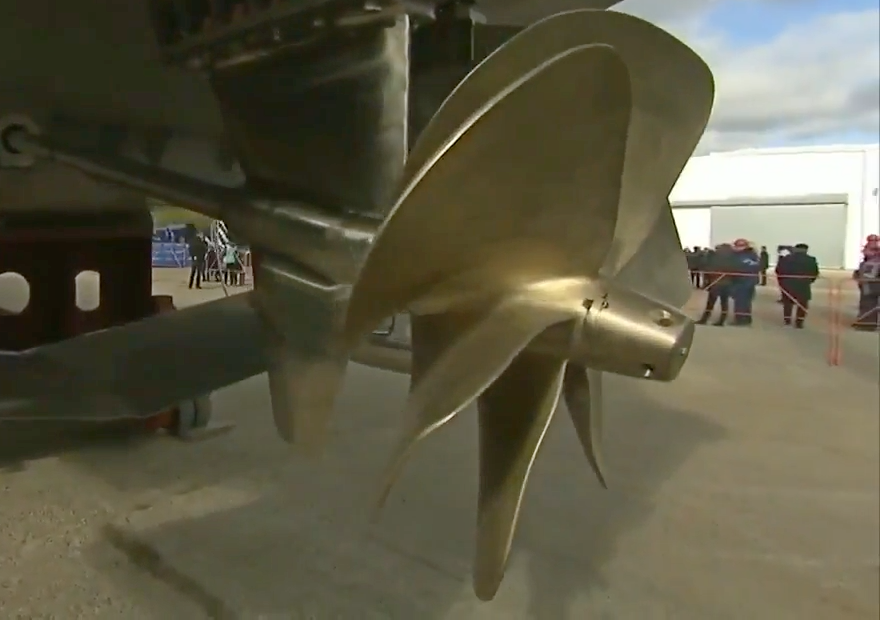 Valday 45R Hydrofoil